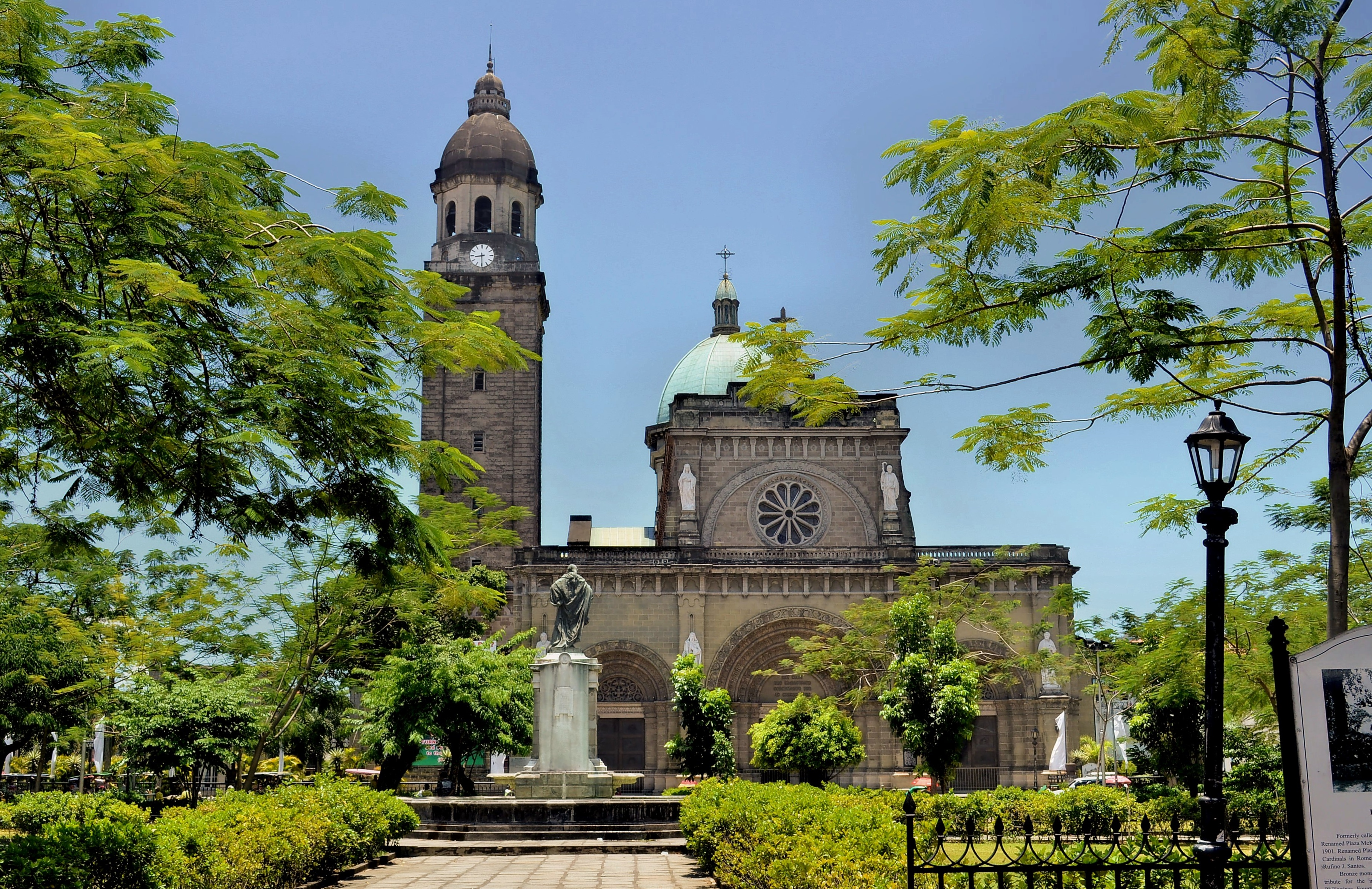 shot while riding a kalesa